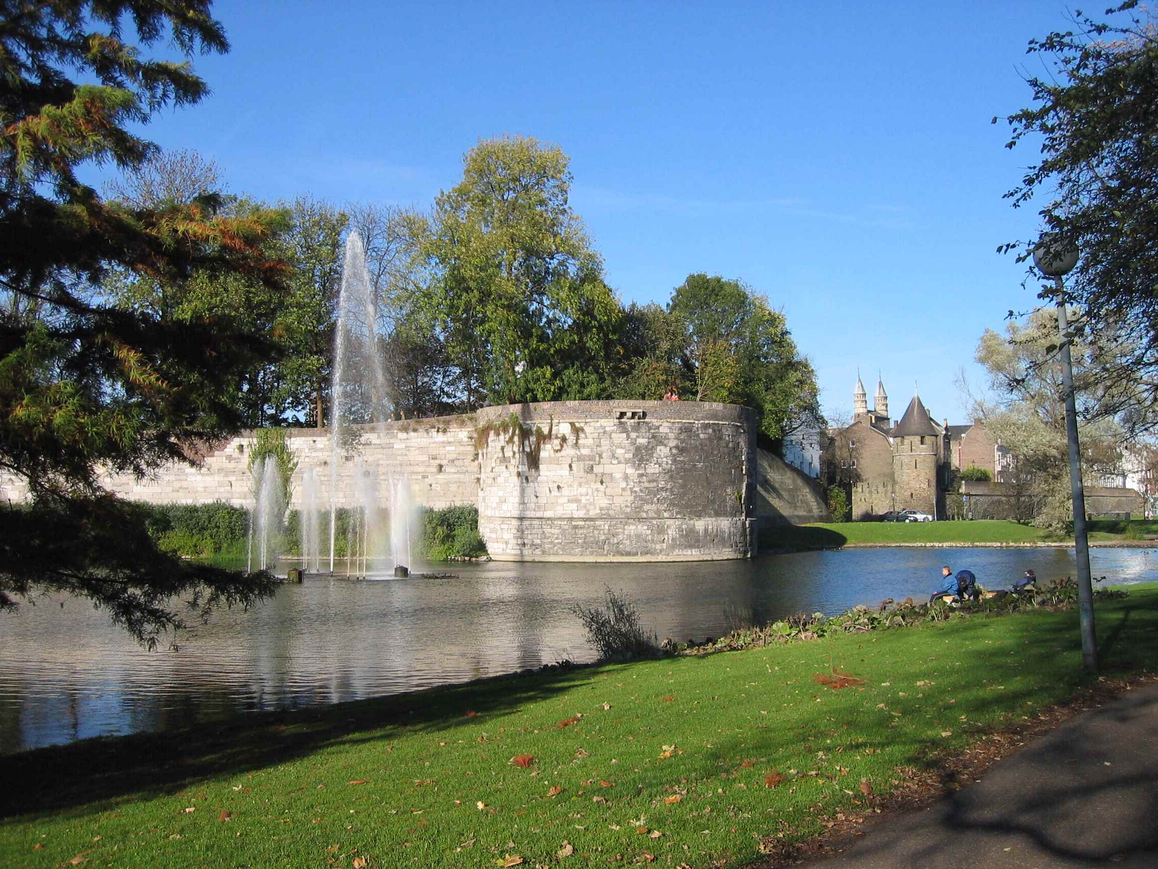 City wall of Maastricht.